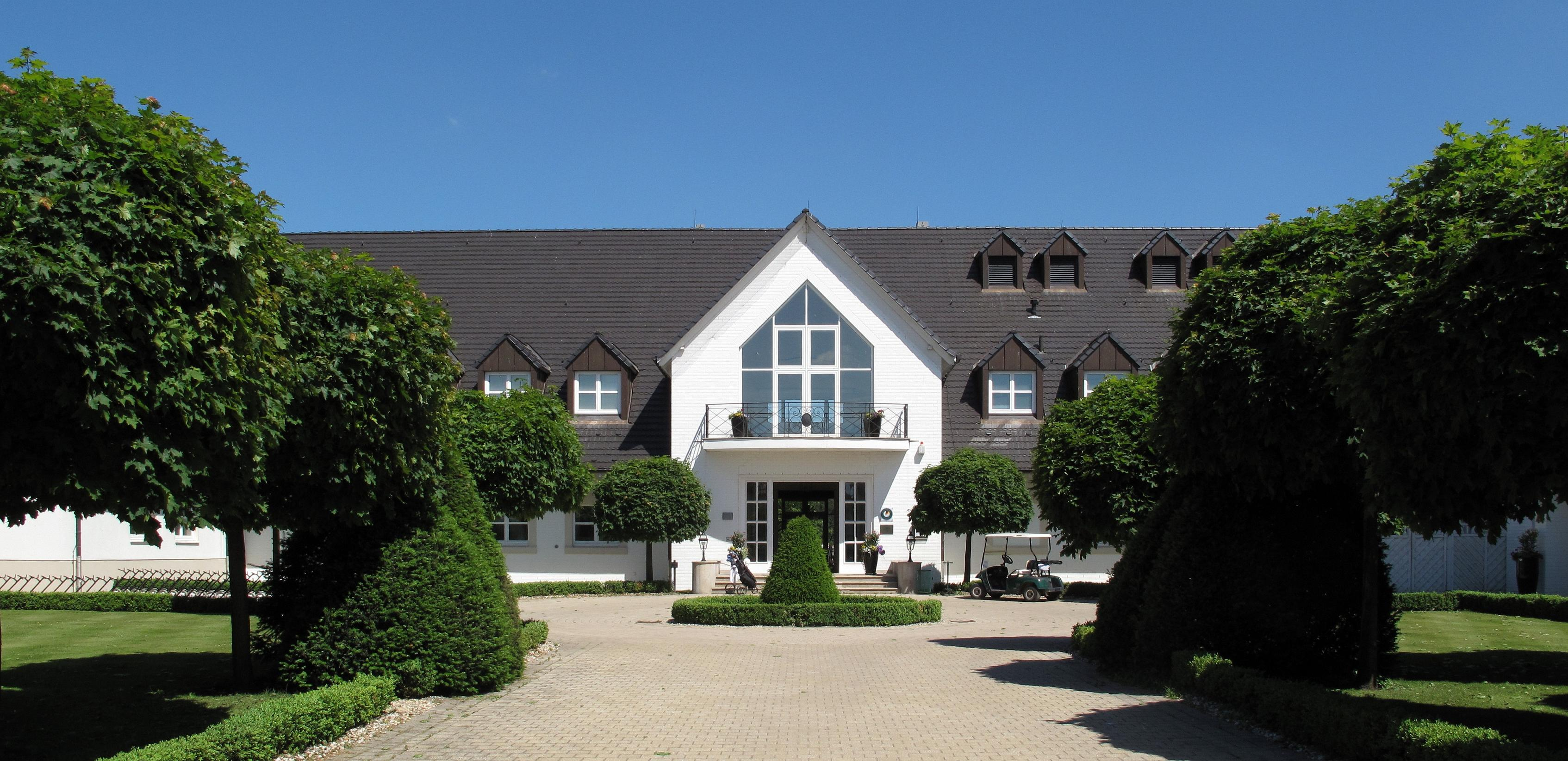 Golf- und Countryclub Seddiner See at the northern lakeshore of the Großer Seddiner See in Wildenbruch. Clubhouse. The club, opened in 1997, has two 18-hole courses and a driving range. The ground covers 185 hectares (with an associated exclusive residential area 250 hectares). Wildenbruch is a part of Michendorf in the district Potsdam-Mittelmark, state Brandenburg, Germany.